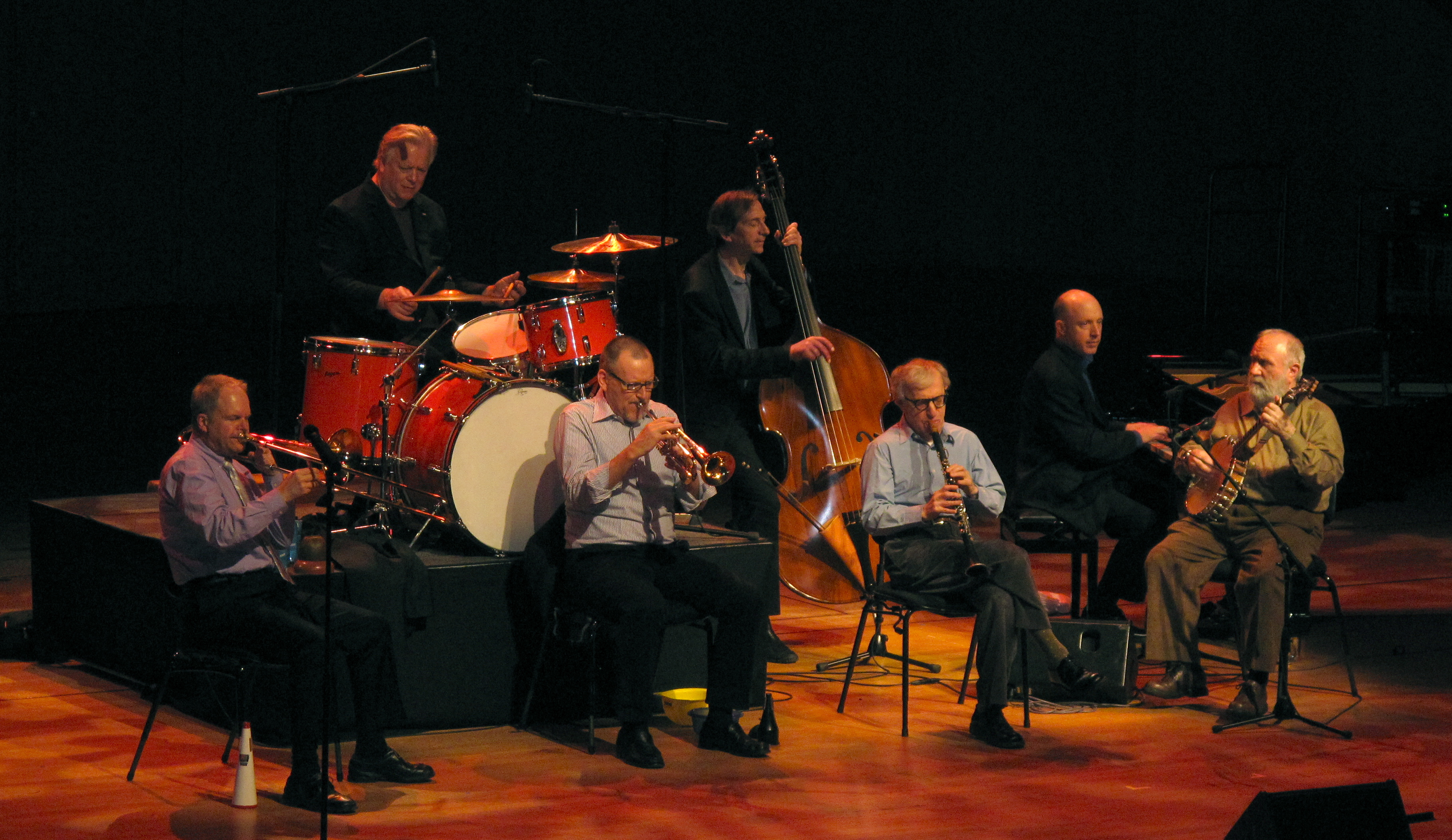 The line-up of Woody Allen with the Eddy Davis New Orleans Jazz Band in the Philharmonie of the Gasteig in Munich, Germany.